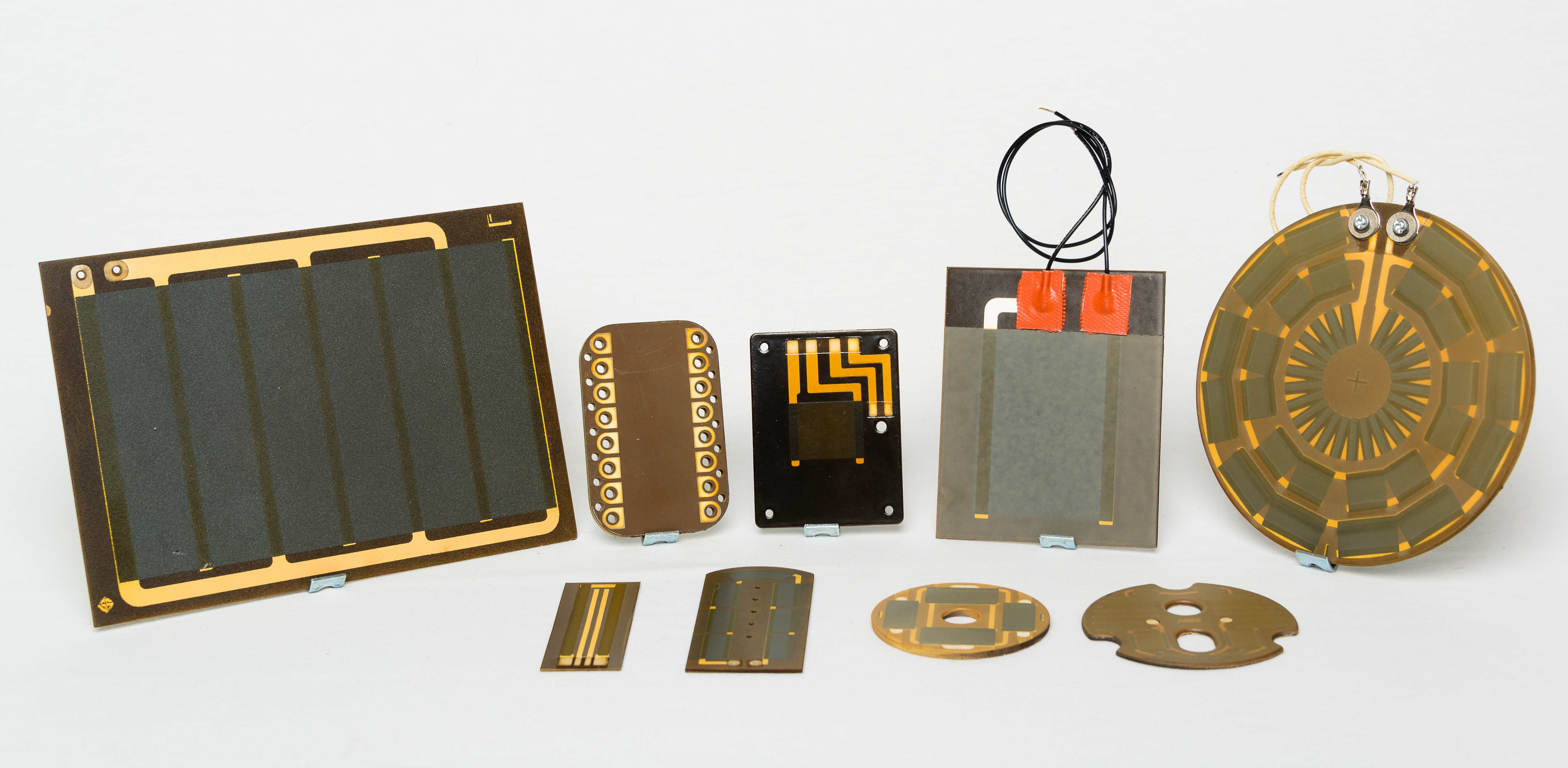 Screen printed thick film heater printed on Aluminum and Stainless steel substrates.These heater were designed and manufactured at Datec Coating Corporation, Mississauga, Canada